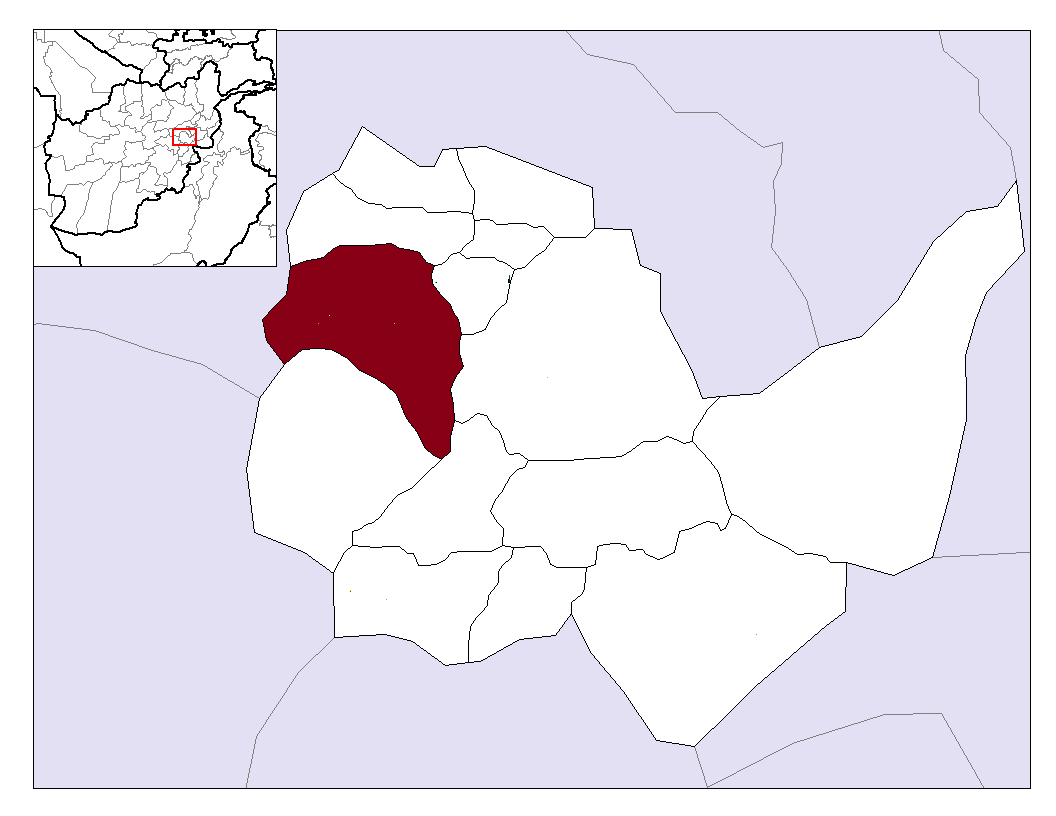 District locator in Kabul Province